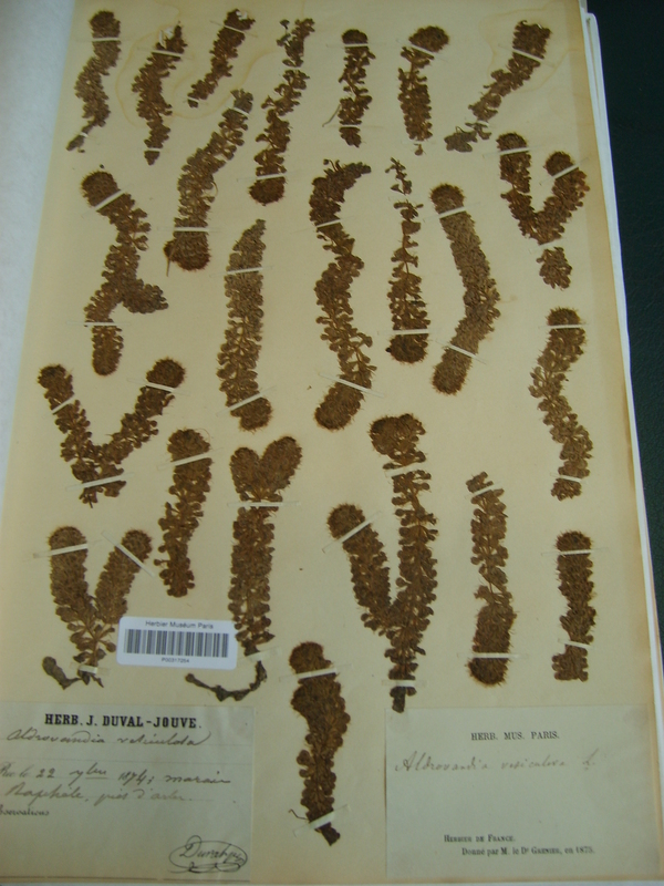 Herbarium specimen of Aldrovanda vesiculosa deposited at the Museum National d'Histoire Naturelle in Paris, France.